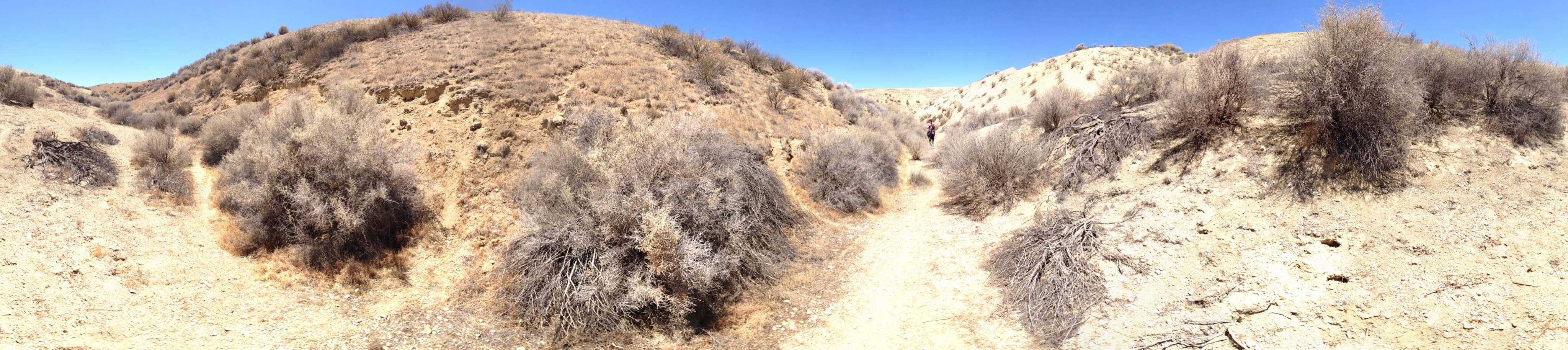 The San Andreas fault near the Wallace creek, panorama view